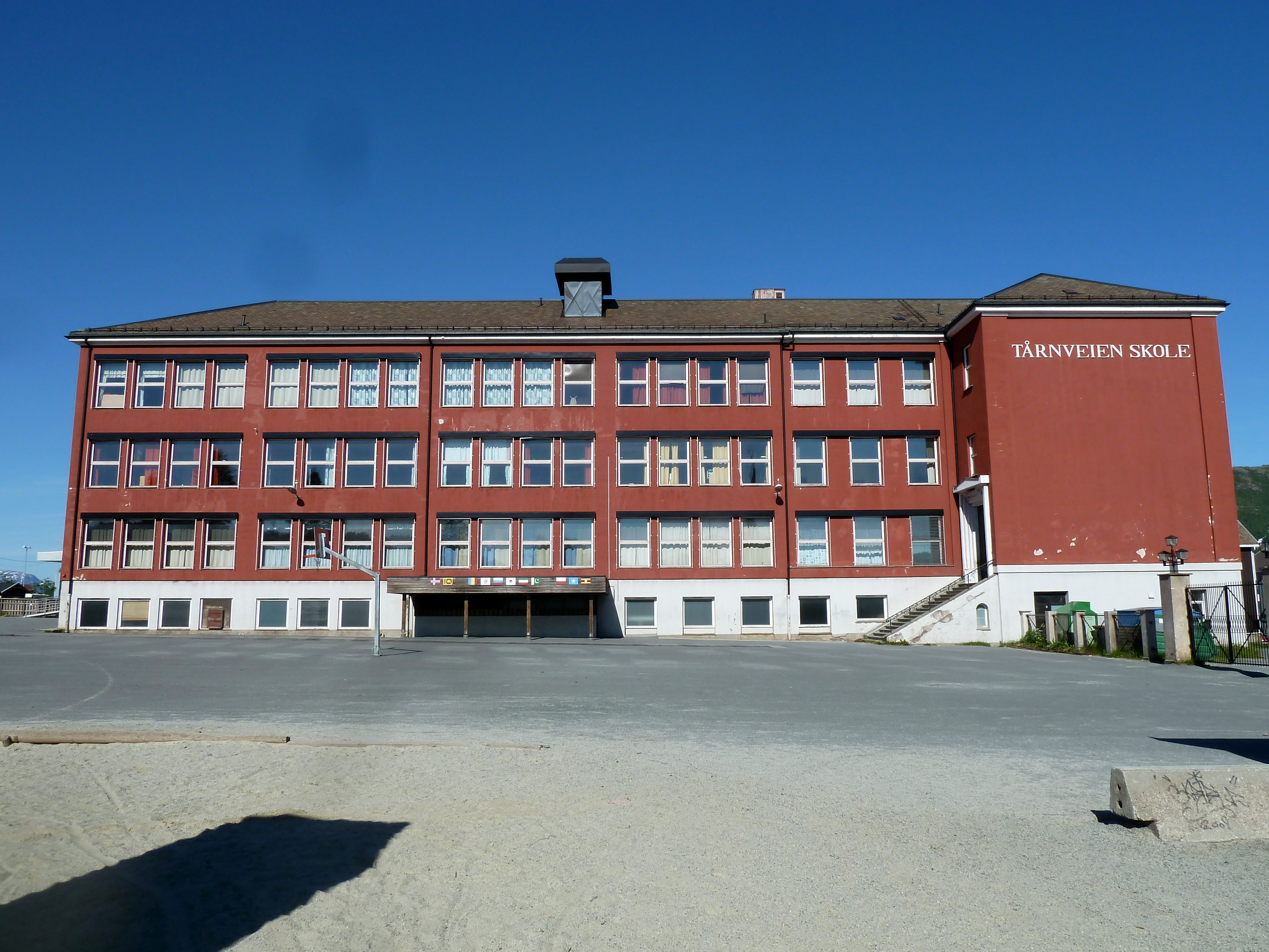 School-building in Narvik, Norway (Frydenlund school)